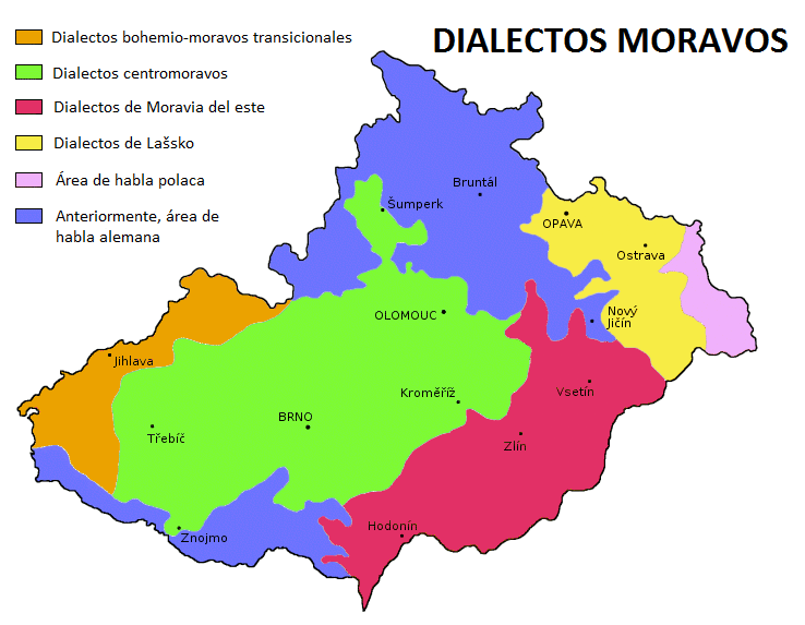 Derivative work of freely-licensed (for any purpose but not public domain, if I understand the wording) work available at German Wikipedia Datei:Maehrisch.png, translating names to English. Map of Moravian dialects.